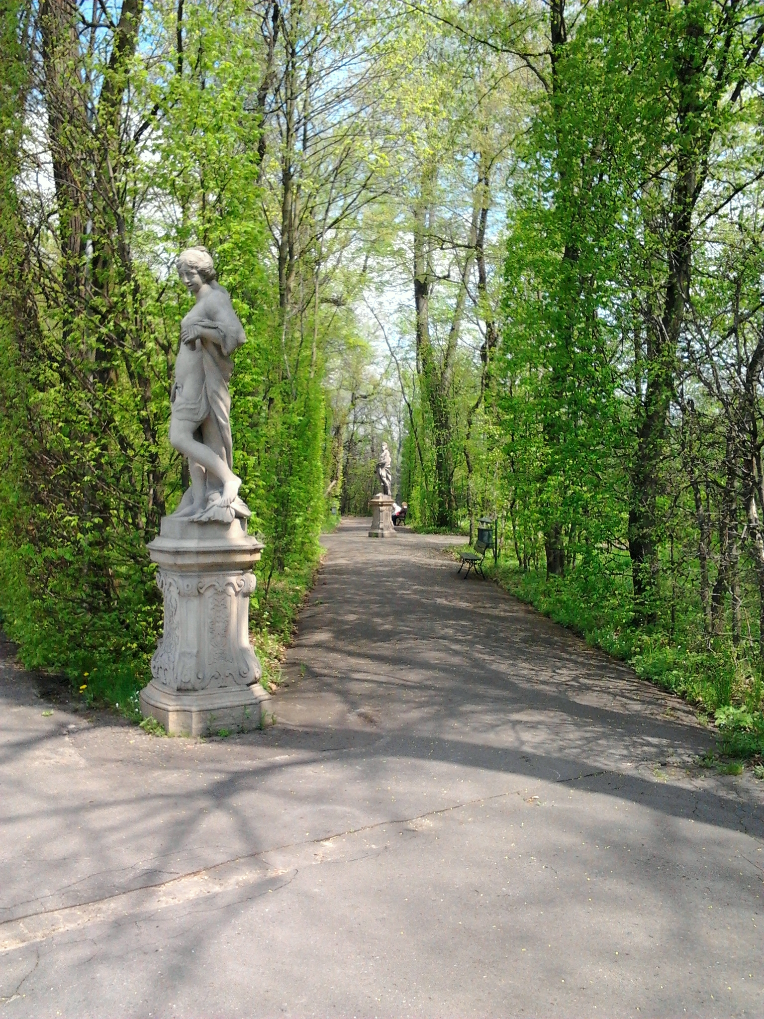 Garden bosquets of the Wilanów Palace.